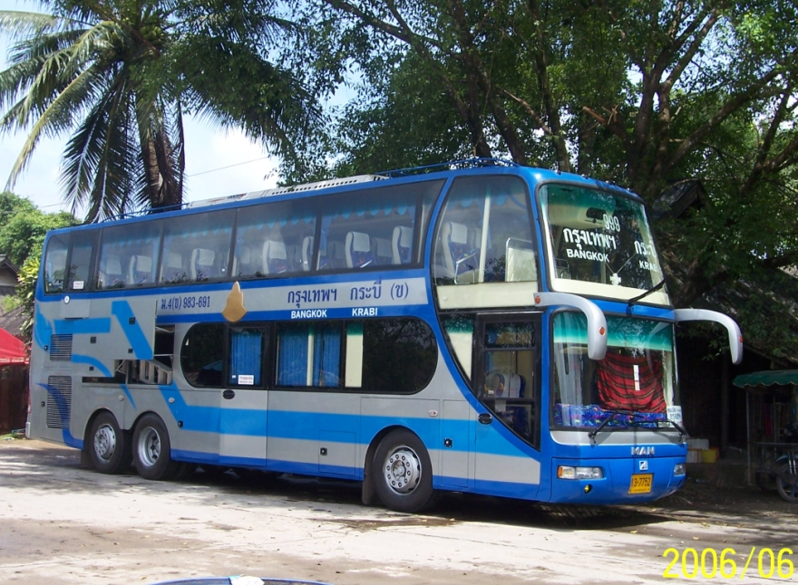 The photo of a bus running between Bangkok and Southern provinces of Thailand. Copyright : 森理世さん 2007年6月19日 (二) 05:43 (UTC) on behalf of Wikipedia. Now contributed to public domain with the consent of original photographer.